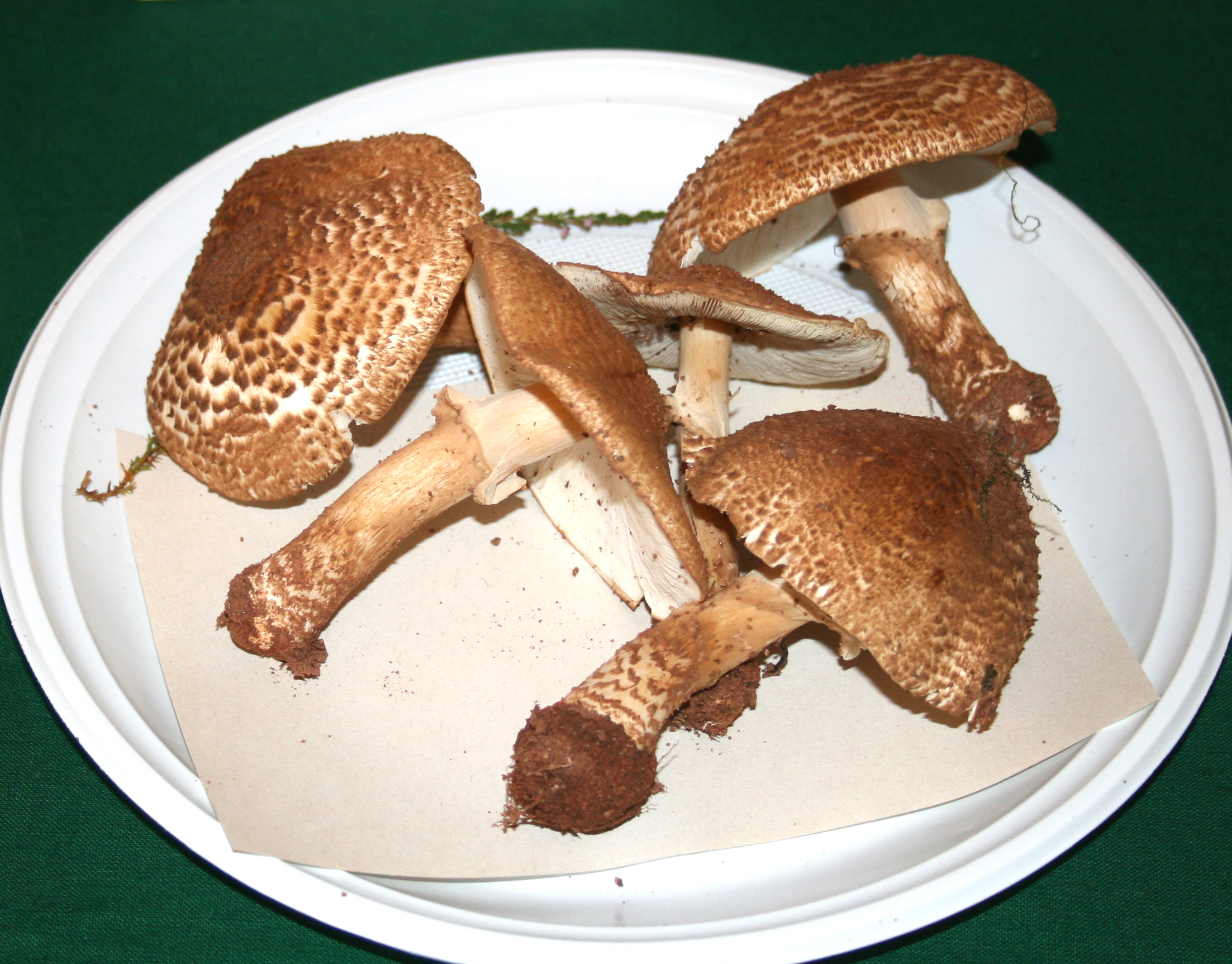 Lepiota aspera on Prague international mushroom exhibition 2008, Czech Republic